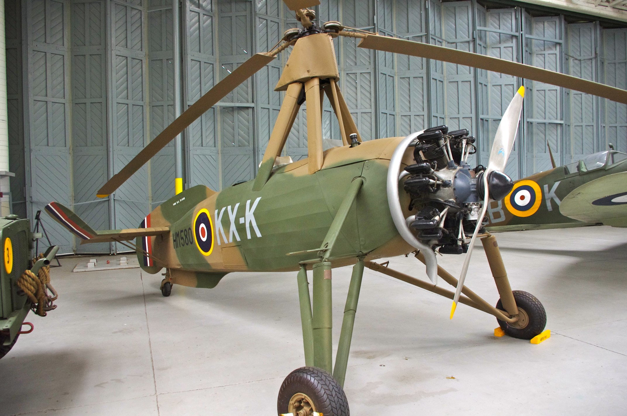 Imperial War Museum, Duxford